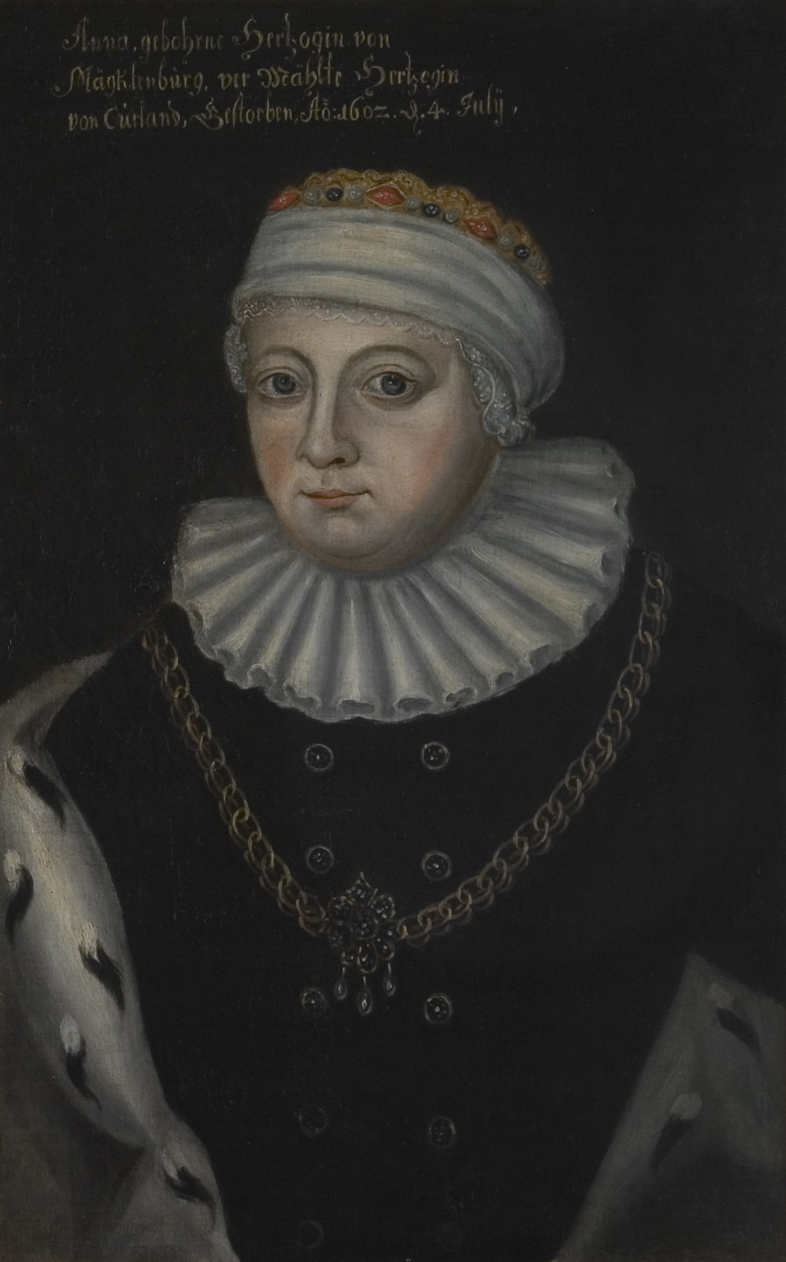 Anna of Mecklenburg, duchess of Courland and Semigallia